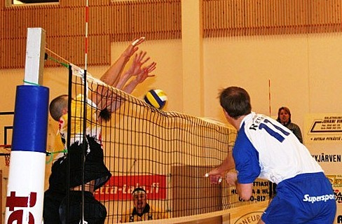 Finland volleyball player Timo Alanen hit againts Kyyjärven Kyky`s block 1. division game season 2006-2007.